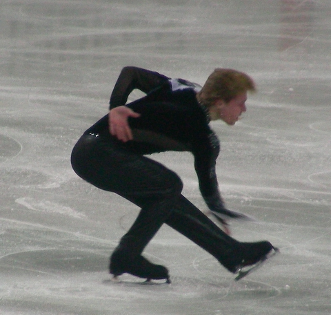 Anton Kovalevski on the 2007 European Figure Skating Championships in Warsaw - free skate